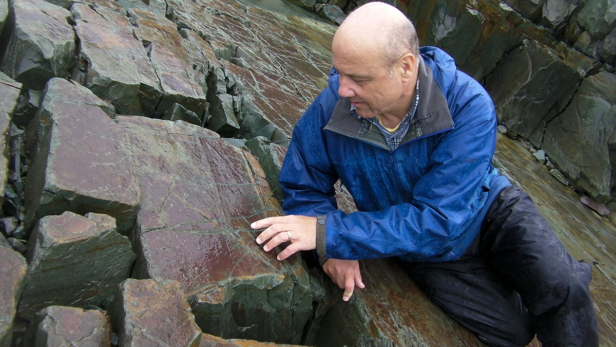 Guy Narbonne is a paleontologist at Queen’s University in Ontario.Here he’s inspecting a fossil of the oldest and largest multi-cellular animal on Earth.The Mistaken Point Ecological Reserve is filled with half a billion-year-old treasures like this one.